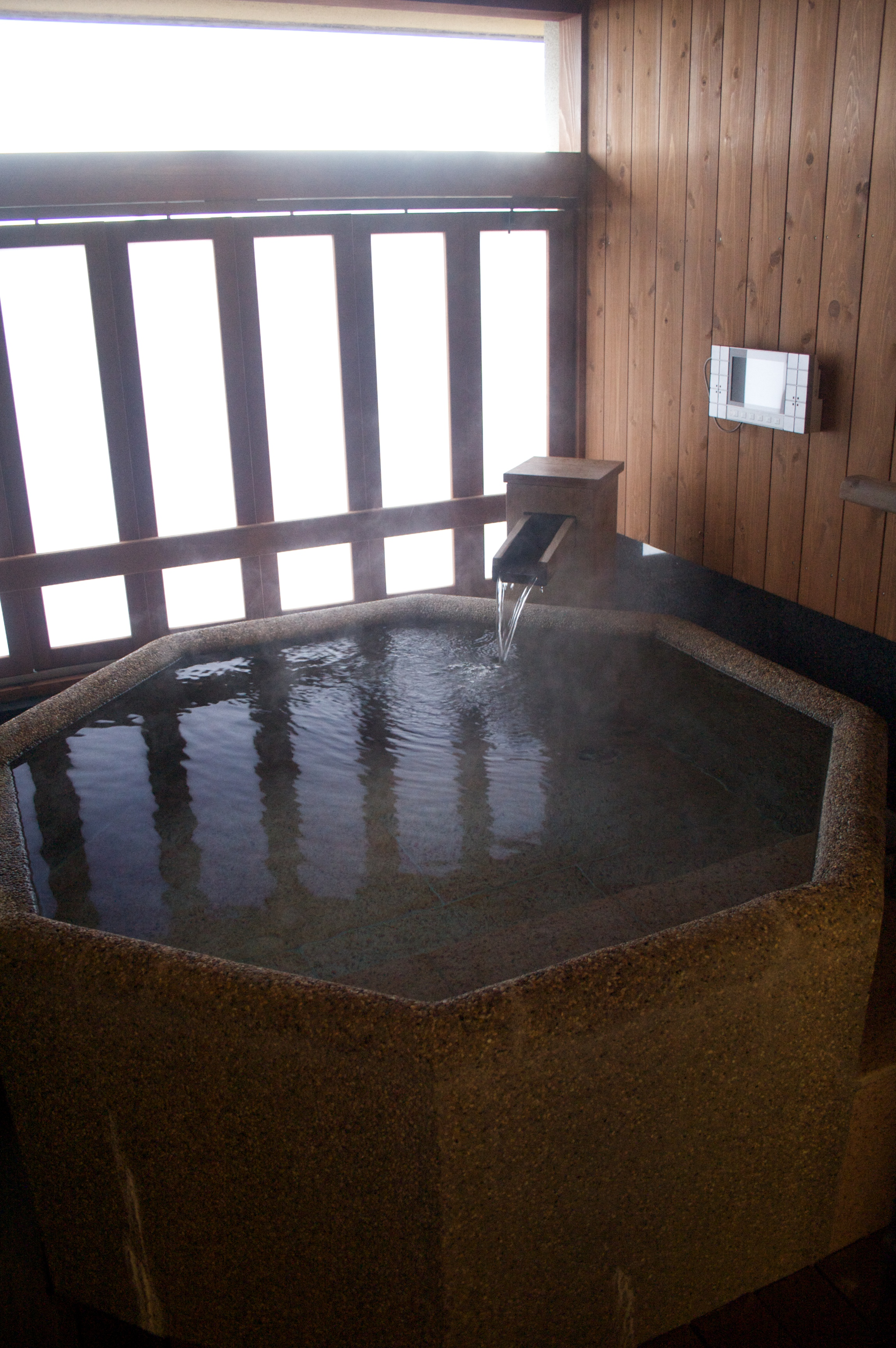 The hot spring bath of Rurikoh, one of the hotels of Yamashiro Onsen in Kaga, Japan.